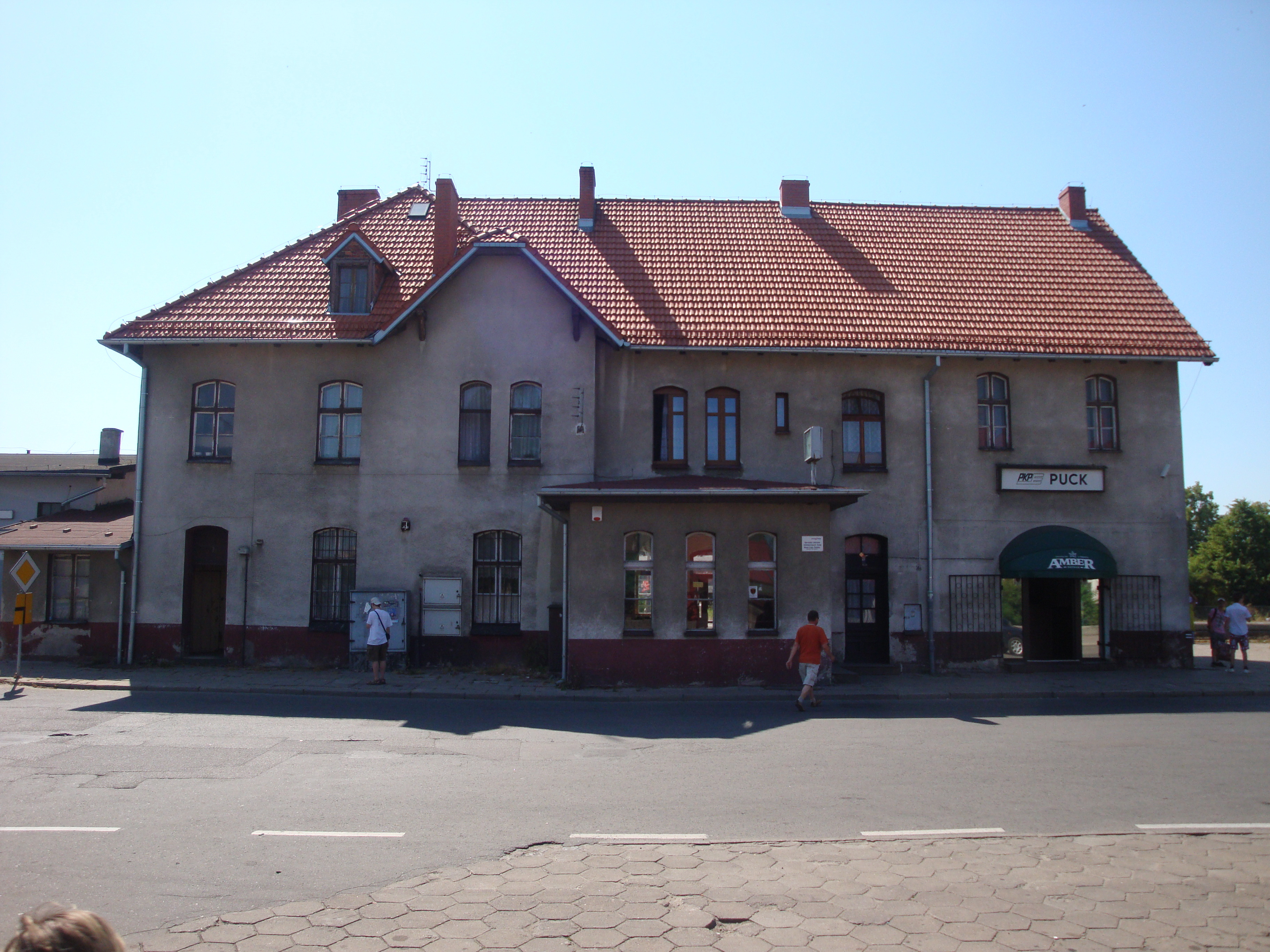 Puck-city in Pomeranian voivodeship, Poland